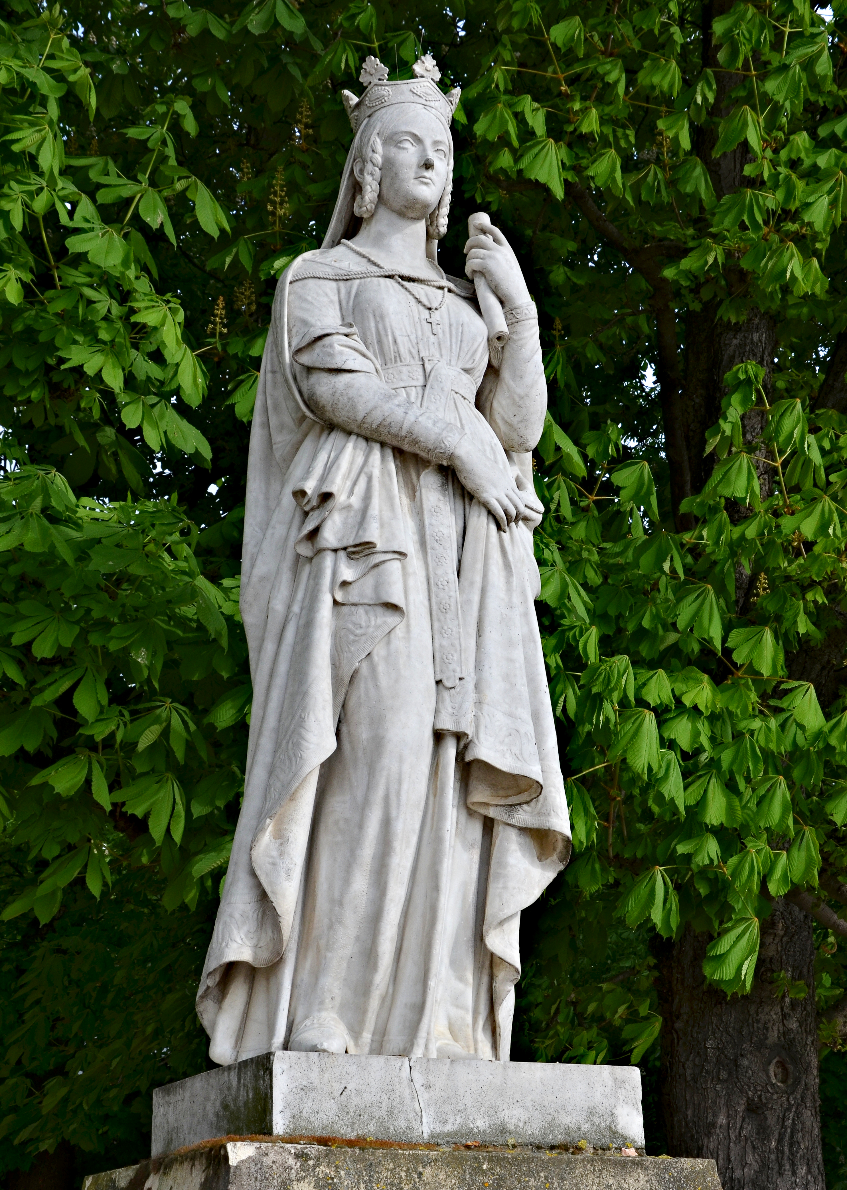 Statue of Saint Bathild, by Victor Thérasse, jardin du Luxembourg, Paris (6th arr.)